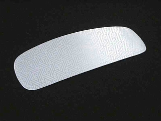 This is an obiita, obi stay to use by inserting between obi when the obi is wrapped around the waist. Obiita makes the obi front part nicely and avoid getting wrinkled. This obiita has no elattic belt and is inserted in front, between the wrapped obi when your obi tie is finished.